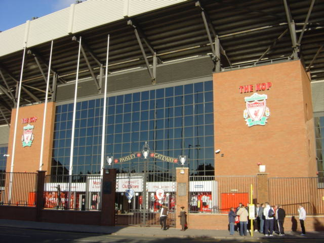 The Kop, Liverpool's Anfield stadium. The famous Kop entrance at Liverpool's Anfield stadium